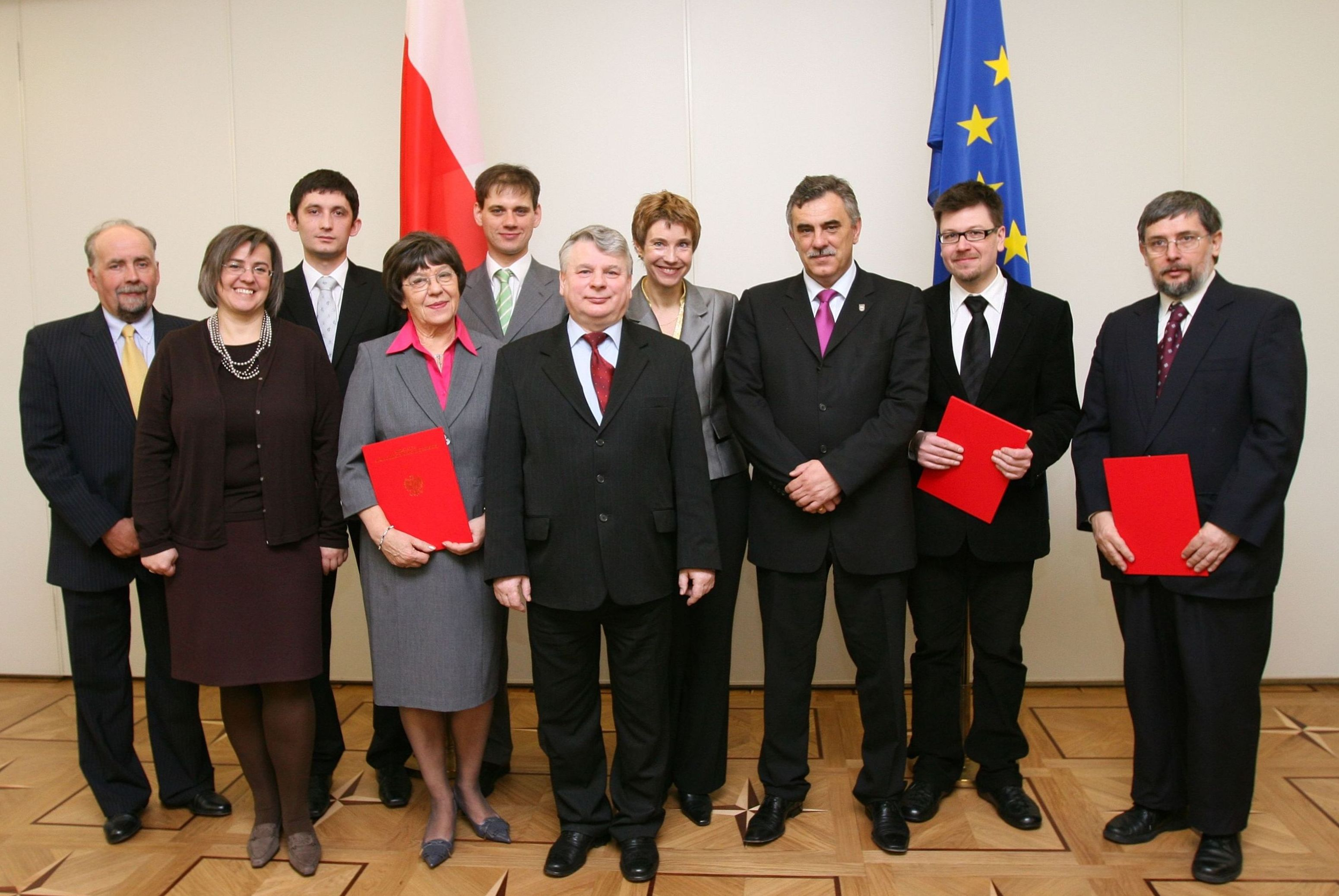 Advisory committee on labour migration of Poles to UE member states with Marshal of the Senate Bogdan Borusewicz